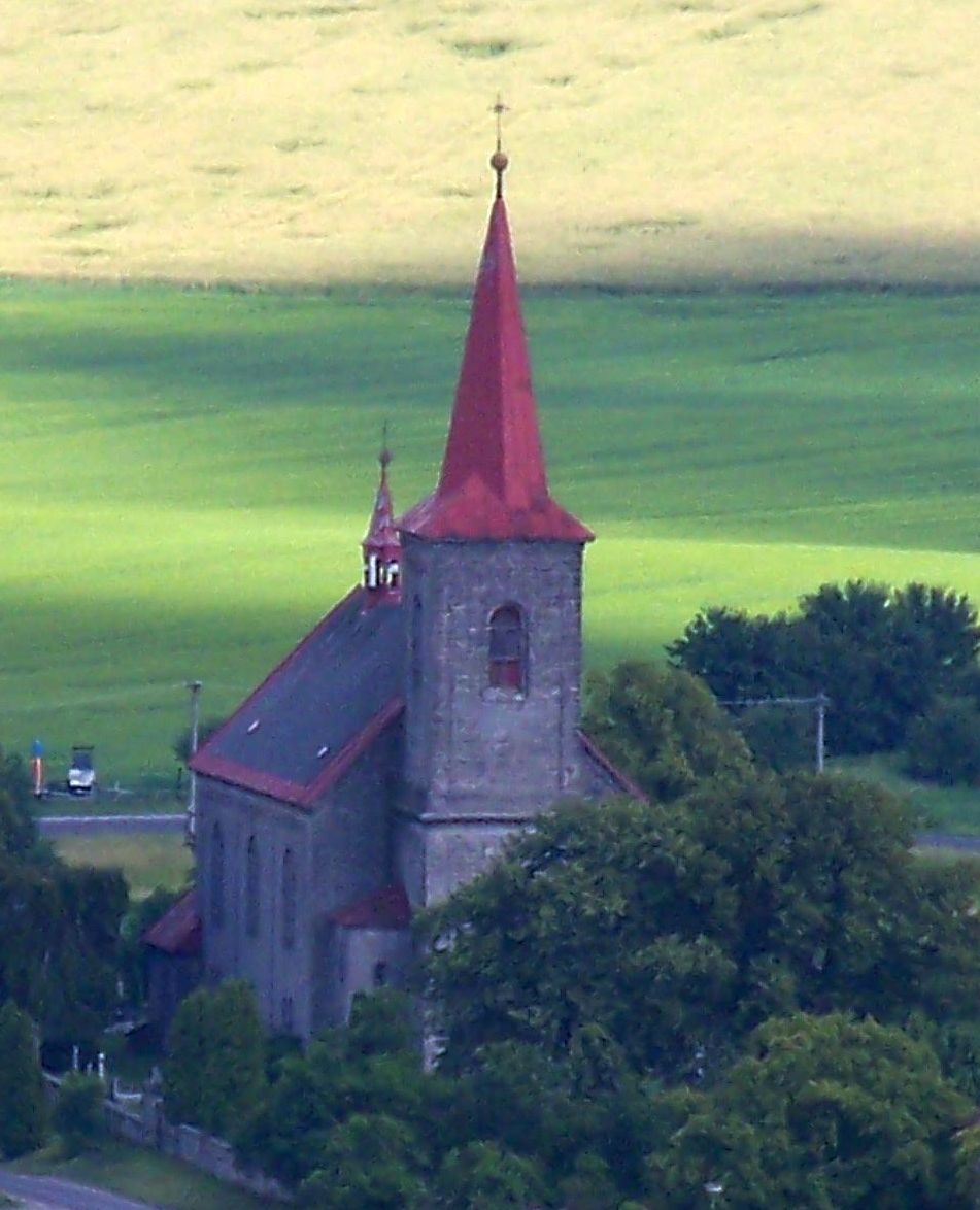 Views from Trosky Castle (Troskovice, Liberec Region, the Czech Republic) to the South-Ost to the church in Újezd pod Troskami, Hradec Králové Region.